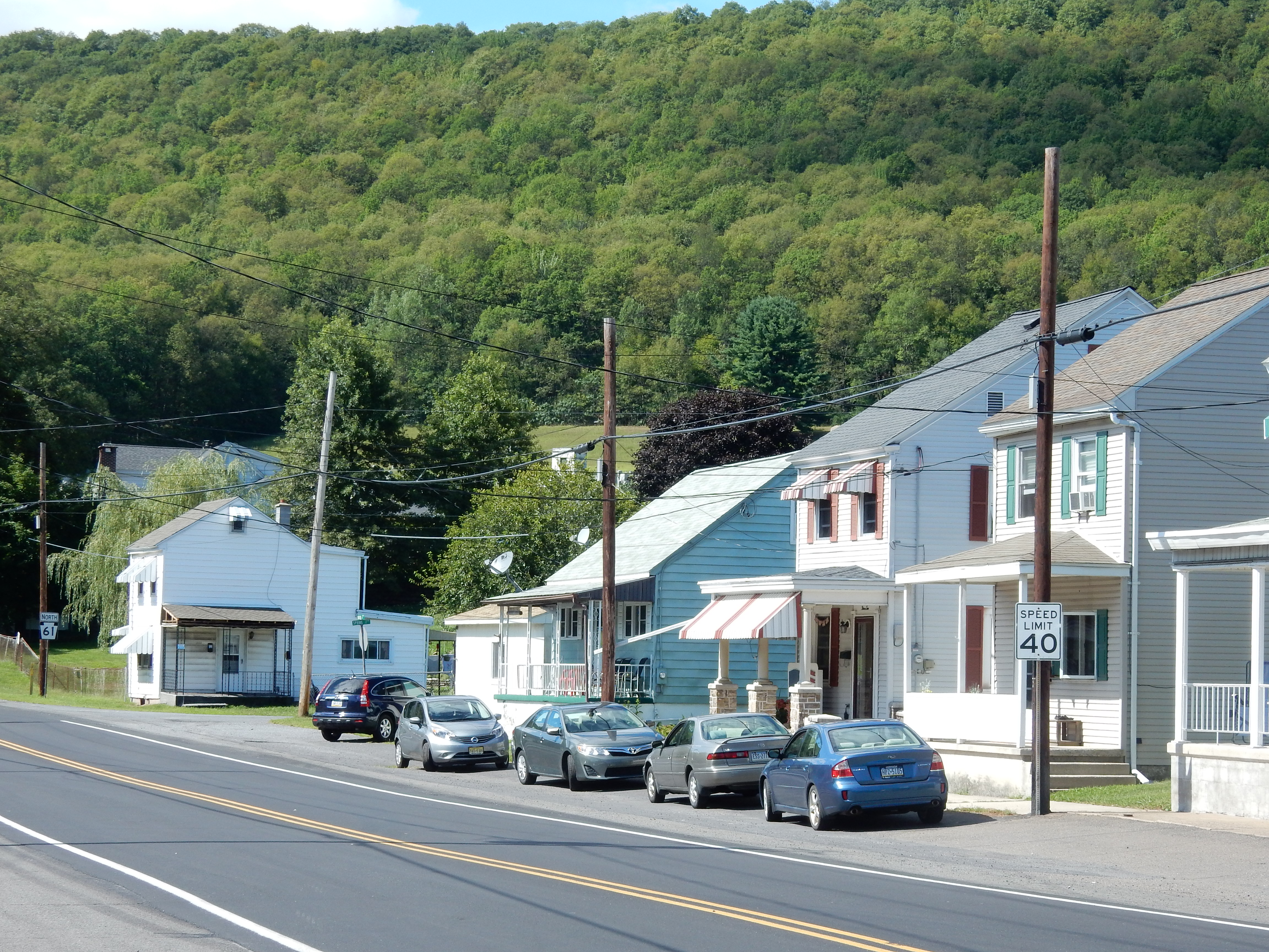 Broad St. (Pennsylvania Route 61), Fountain Springs, Butler Township, Schuylkill County, Pennsylvania. Looking west.